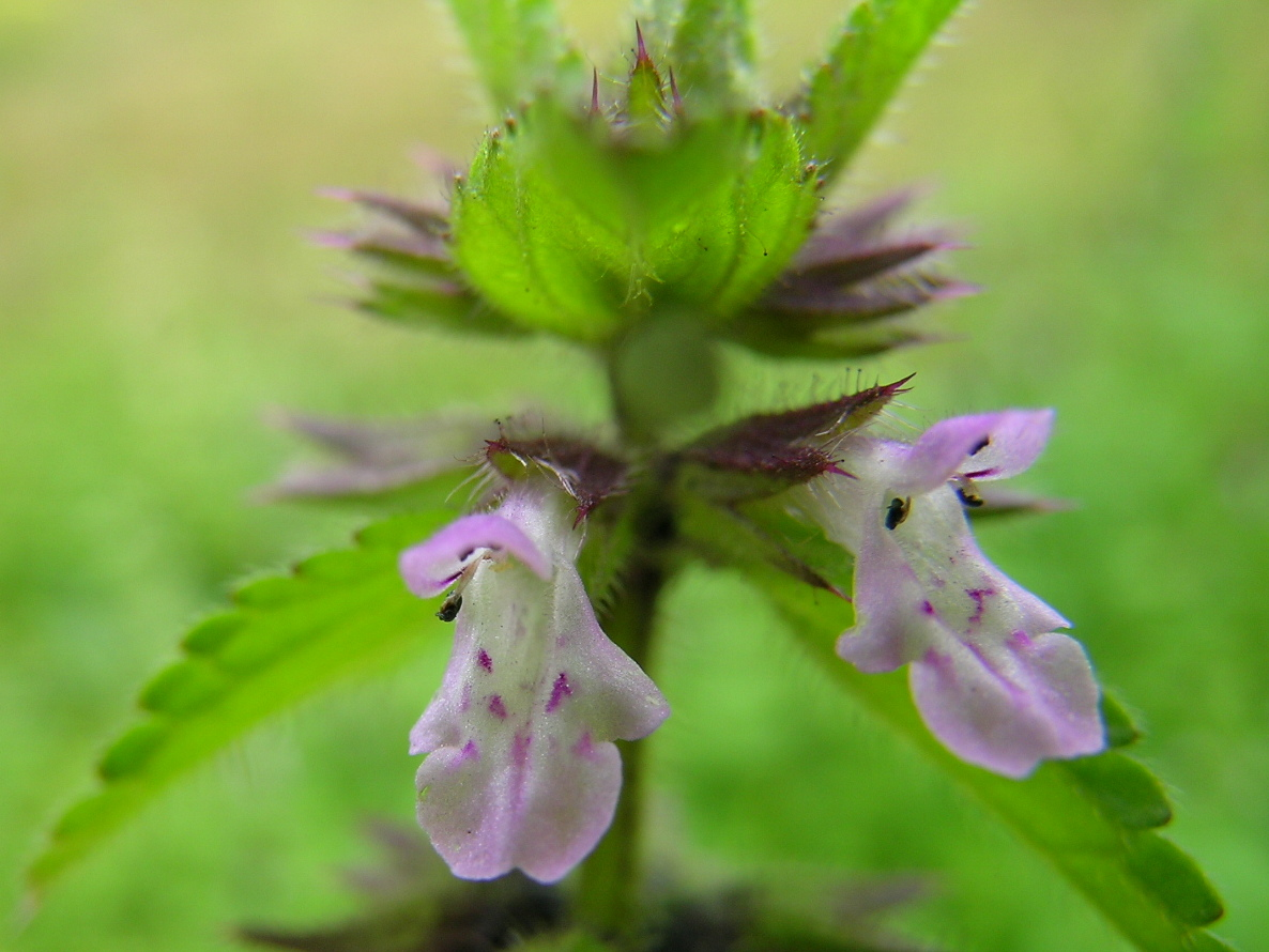 Introduced, cool-season, annual, erect herb to 35 cm tall. Stems are hairy. Leaves are stalked, opposite, 1-4 cm long, broad and deeply veined, with rounded teeth on the leaf margins. Flowers are 5-7 mm long, pink to purple and occur in small clusters in the axils of the upper leaves. Flowering is in winter and early spring. A native of Europe and North Africa, it is a weed of cultivation and disturbed land, such as around watering points, stockyards and stream banks. Poisonous to cattle, horses, pigs and sheep. Most cases occur in late winter and spring, causing a range of symptoms including weakness, staggers with stilted gait, dullness and diarrhoea. Older plants are generally more toxic than younger ones. Do not graze stock where infestations occur. Remove stock and rest them for several days to 2 weeks if they have grazed plants. Healthy vigorous pastures are an effective control. Registered herbicides are available for control in pastures.